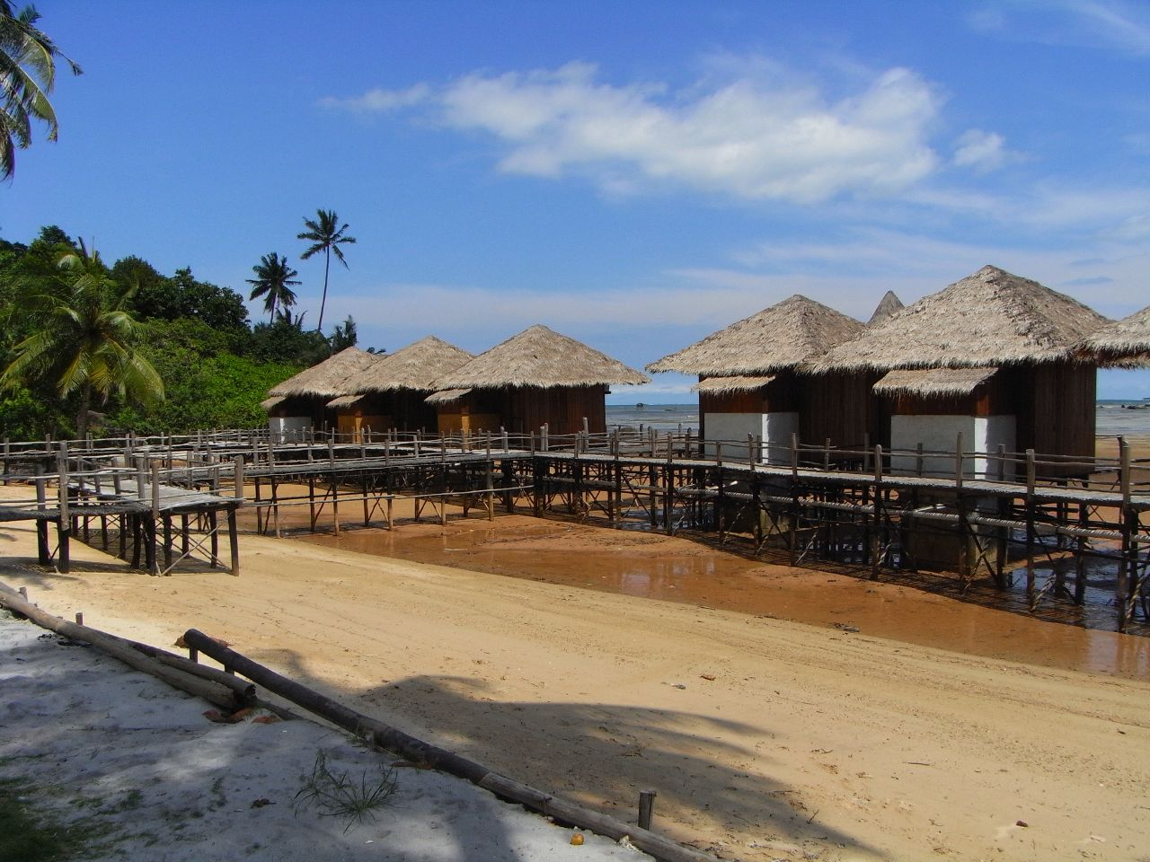 Bintan Island